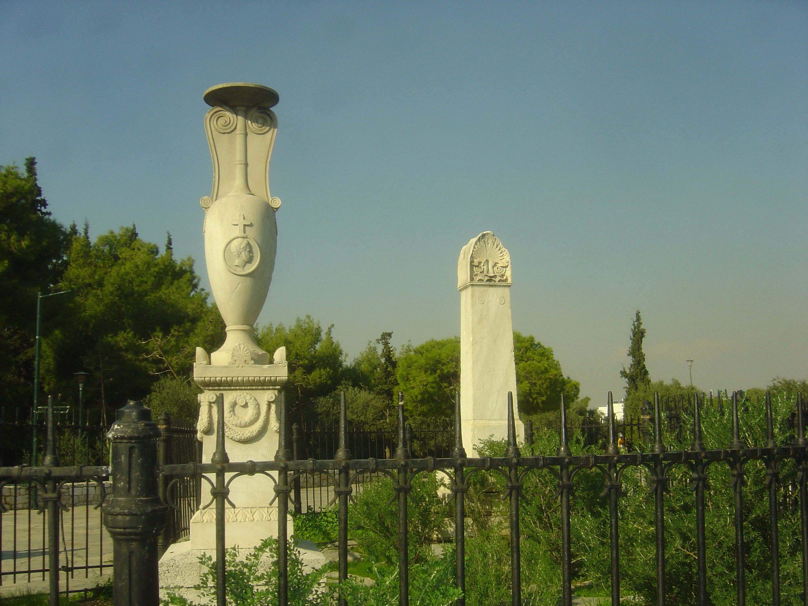 Memorial of Charles Lenormant (1802-1859) and and Karl Otfried Müller (1797-1840)